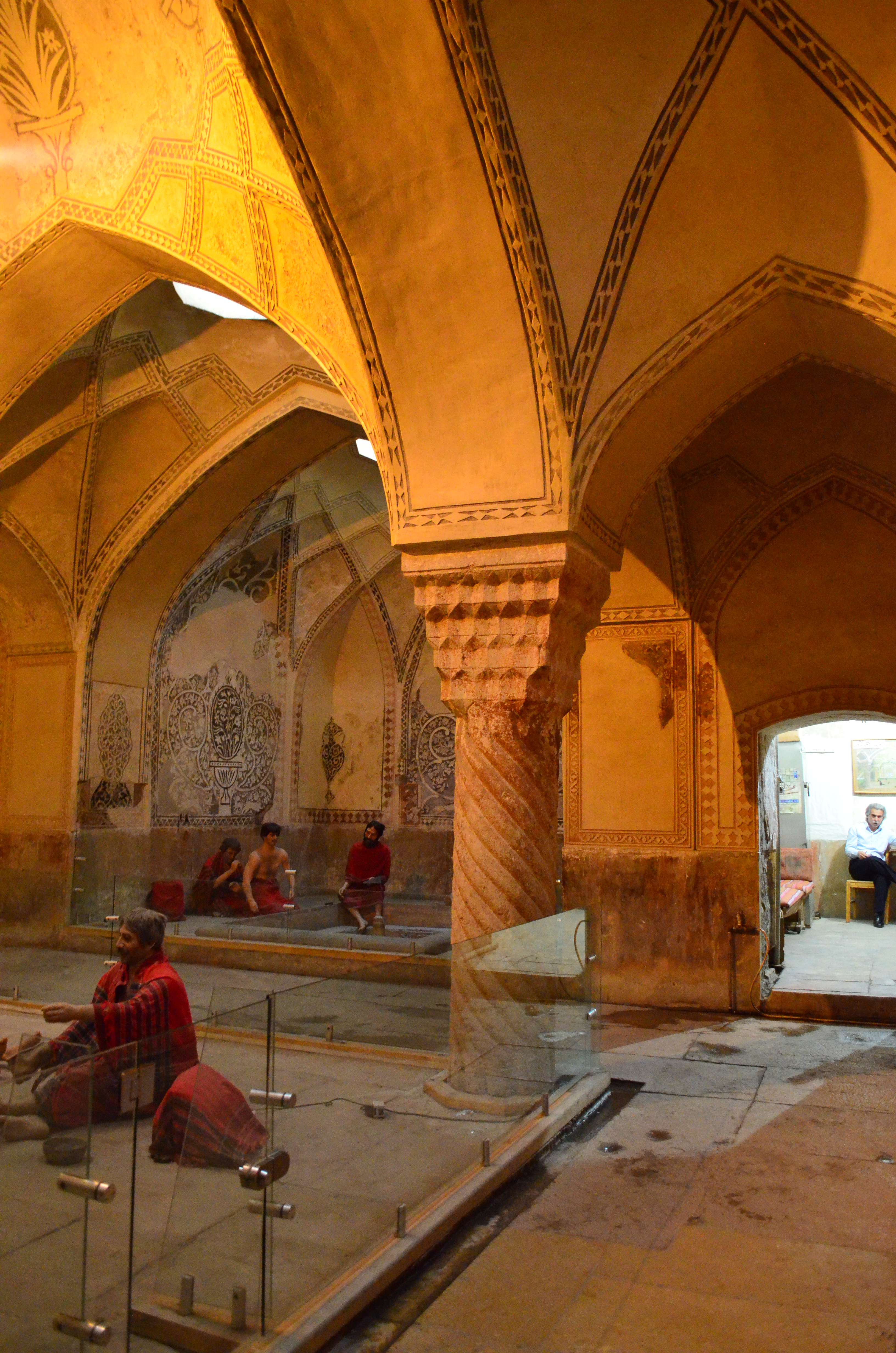 Vakil Bath